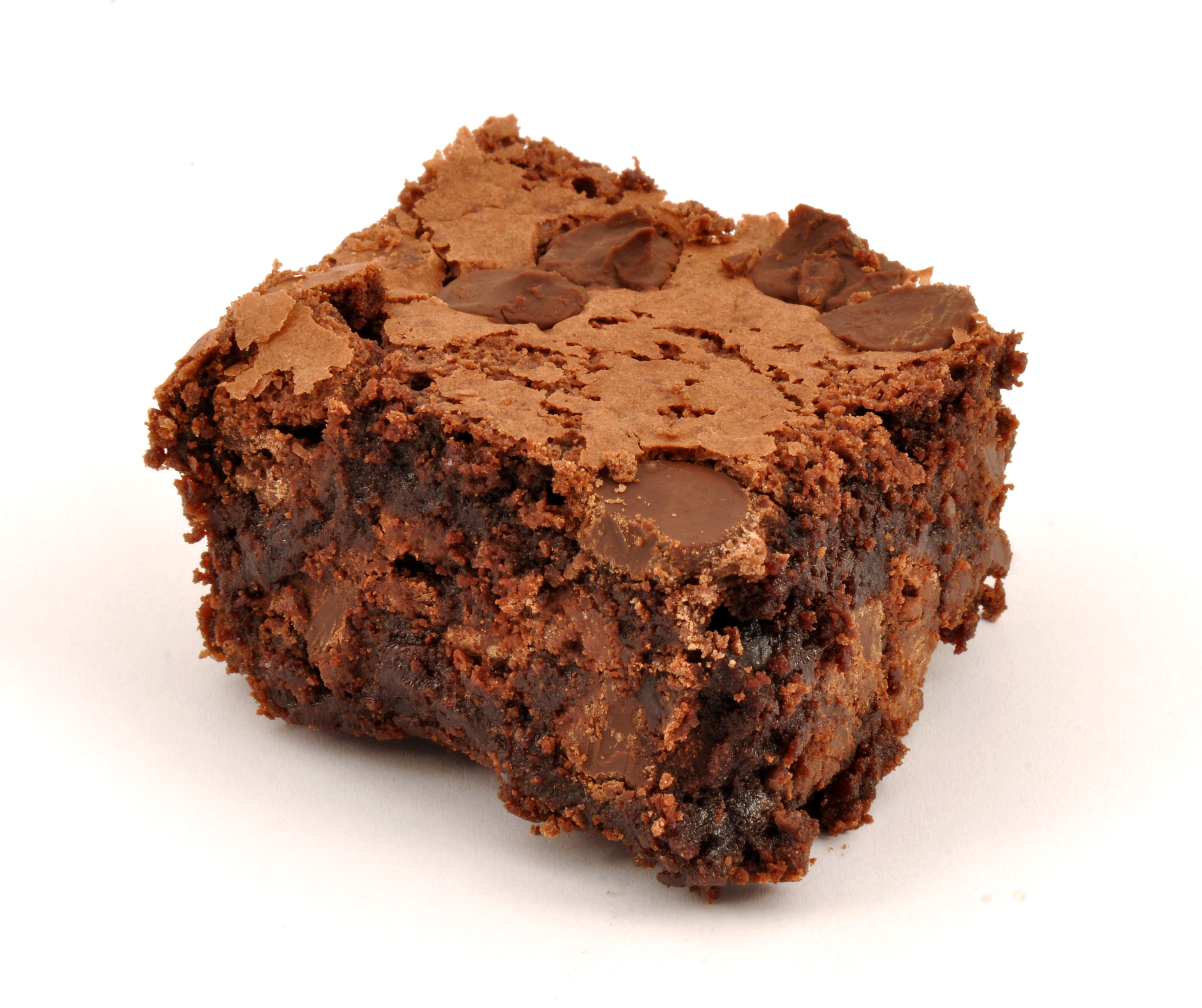 This is an image of a chocolate brownie.